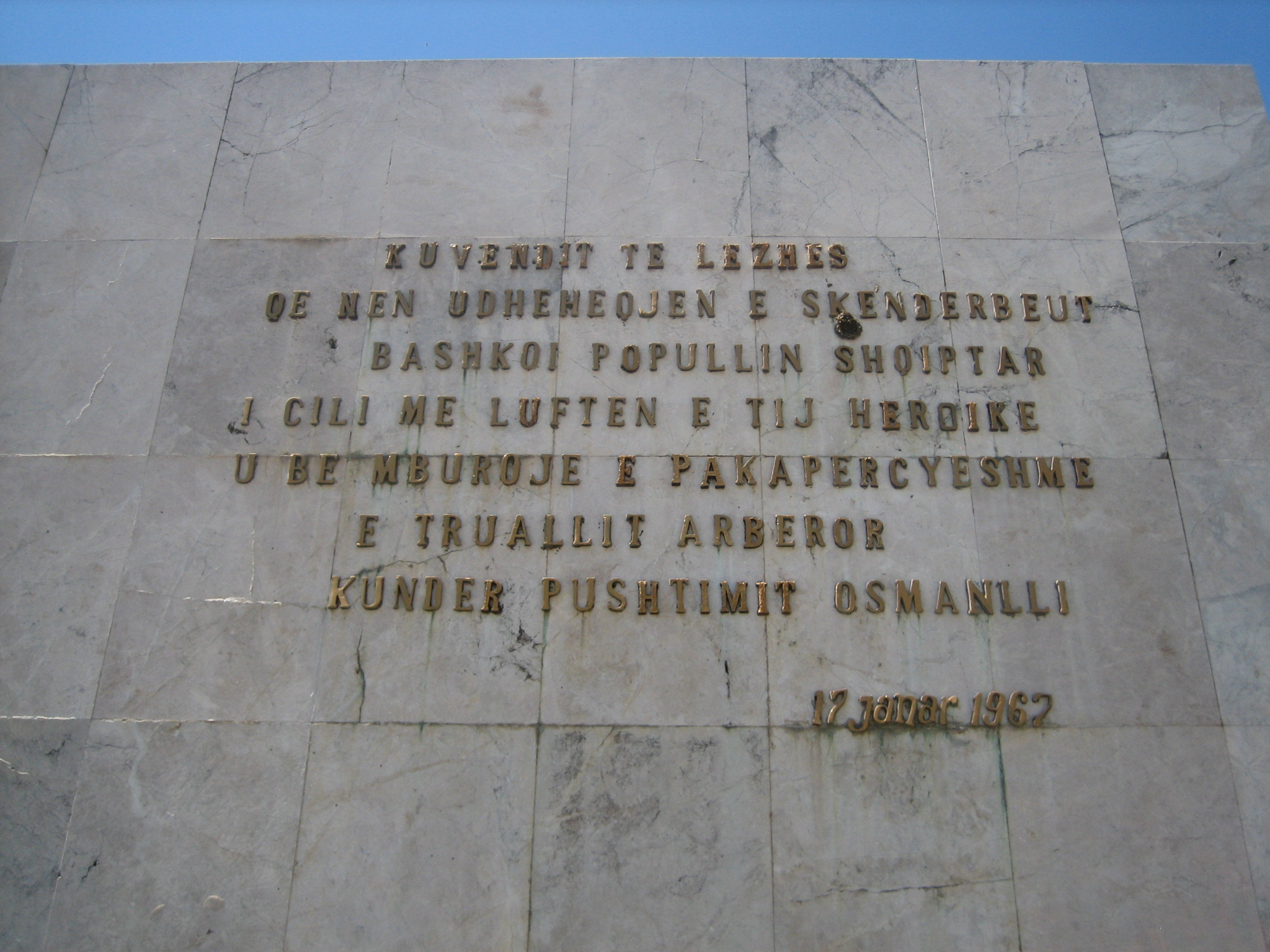 League of Lezhë commemoration monument at Sheshi Besëlidhja, Lezhë, Albania